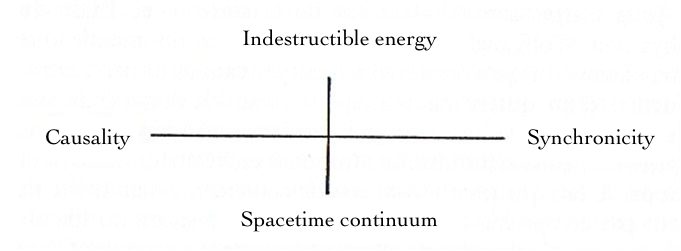 Picture of the concept of synchronicity by CG Jung with English text substituted for original French